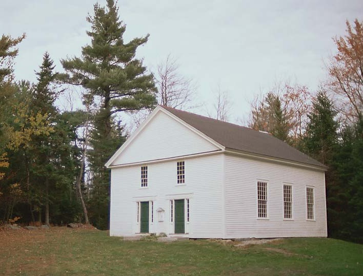 La primera Iglesia Adventista in Washington New Hampshire